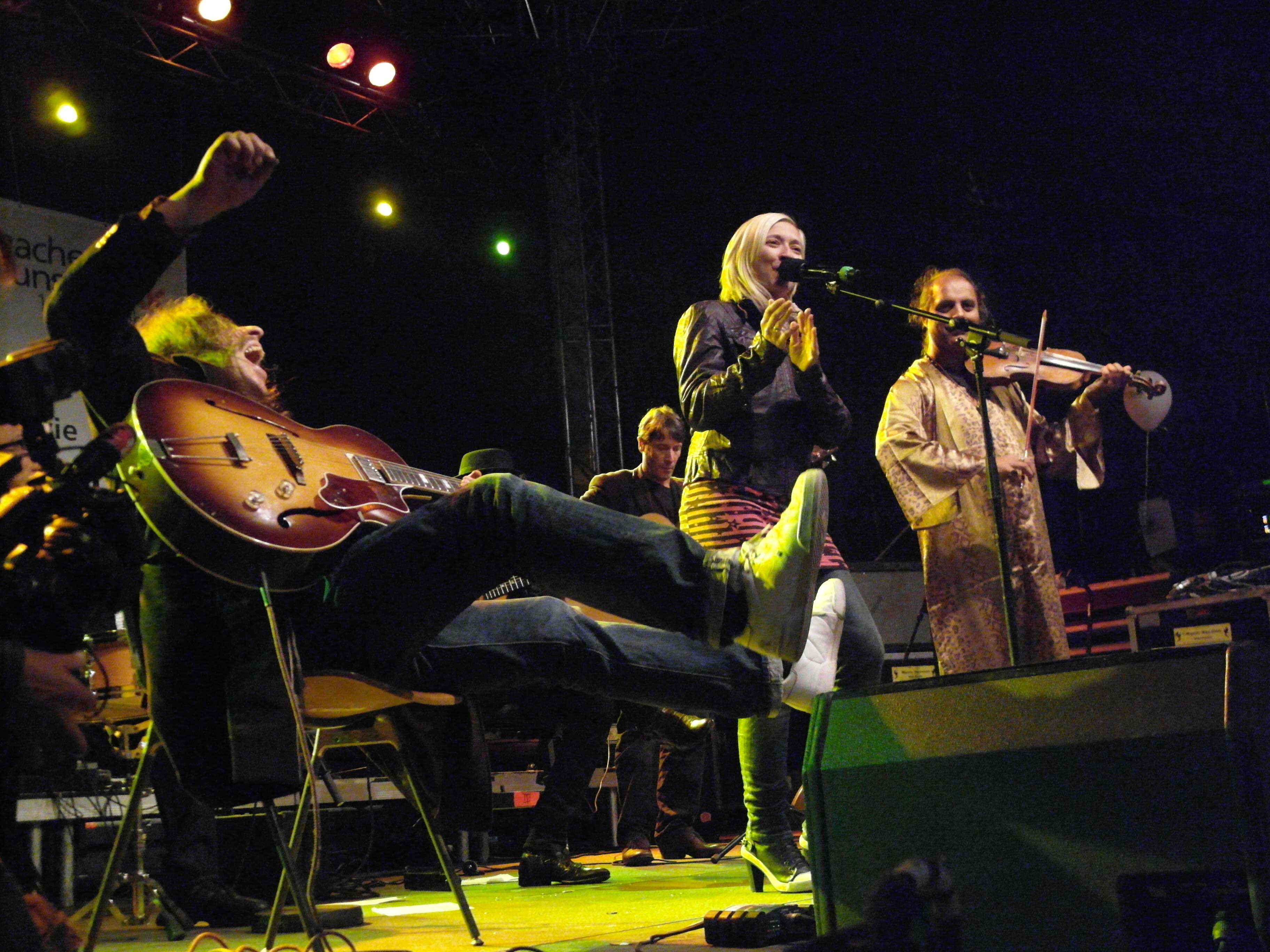 Roma guitarist Harri Stojka (left) and other musicians engaged in human rights activism having a pretty good time on occasion of a demonstration for human rights. From left to right: Harry Stojka, the hat of guitarist Claudius Jelinek, N.N., singer Jelena Krstic, yougoslav roma violonist Moša Šišic. (German) Note: Camera time stamp is set to UTC, which is local CEST -2.